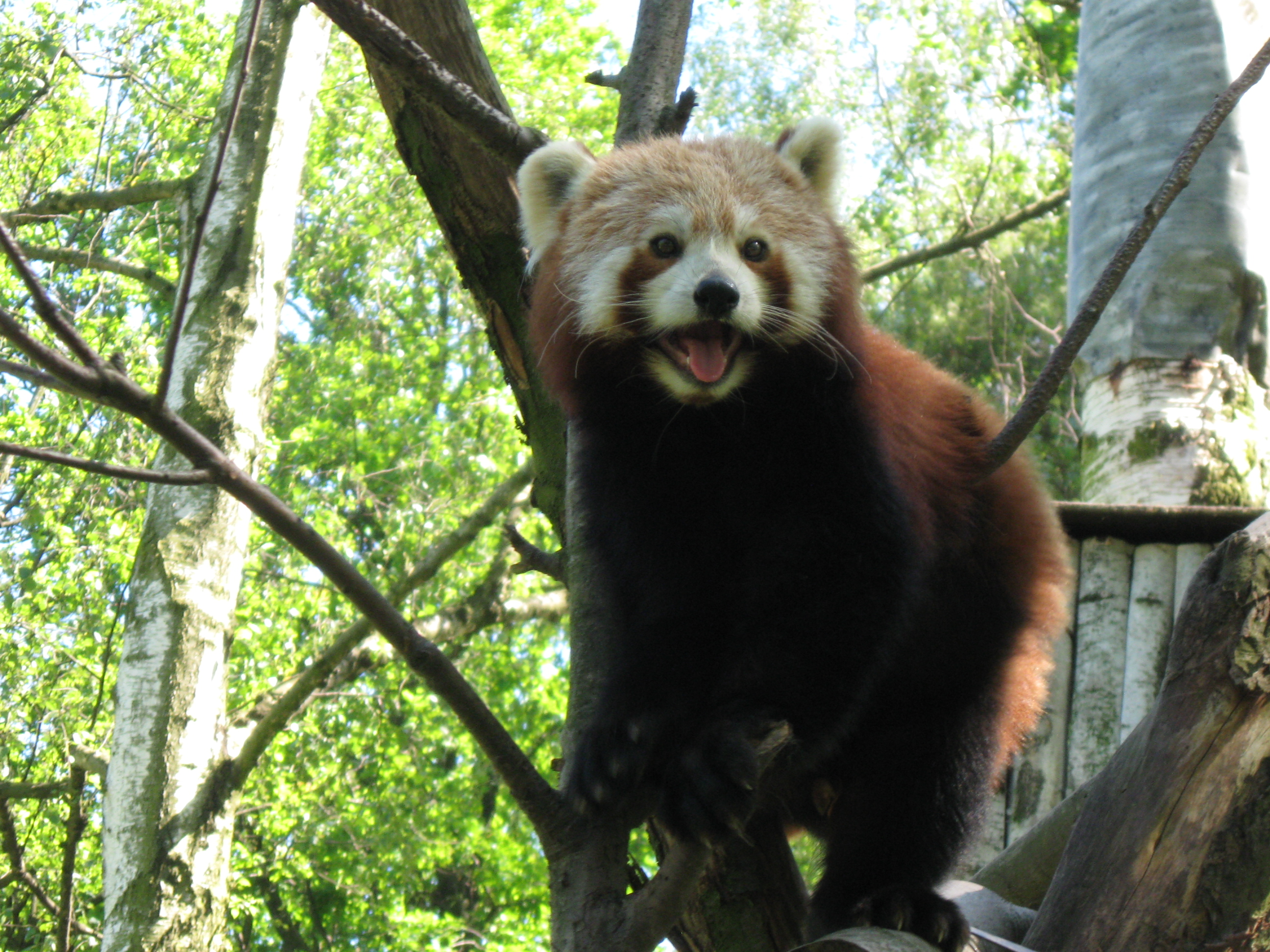 Red Panda